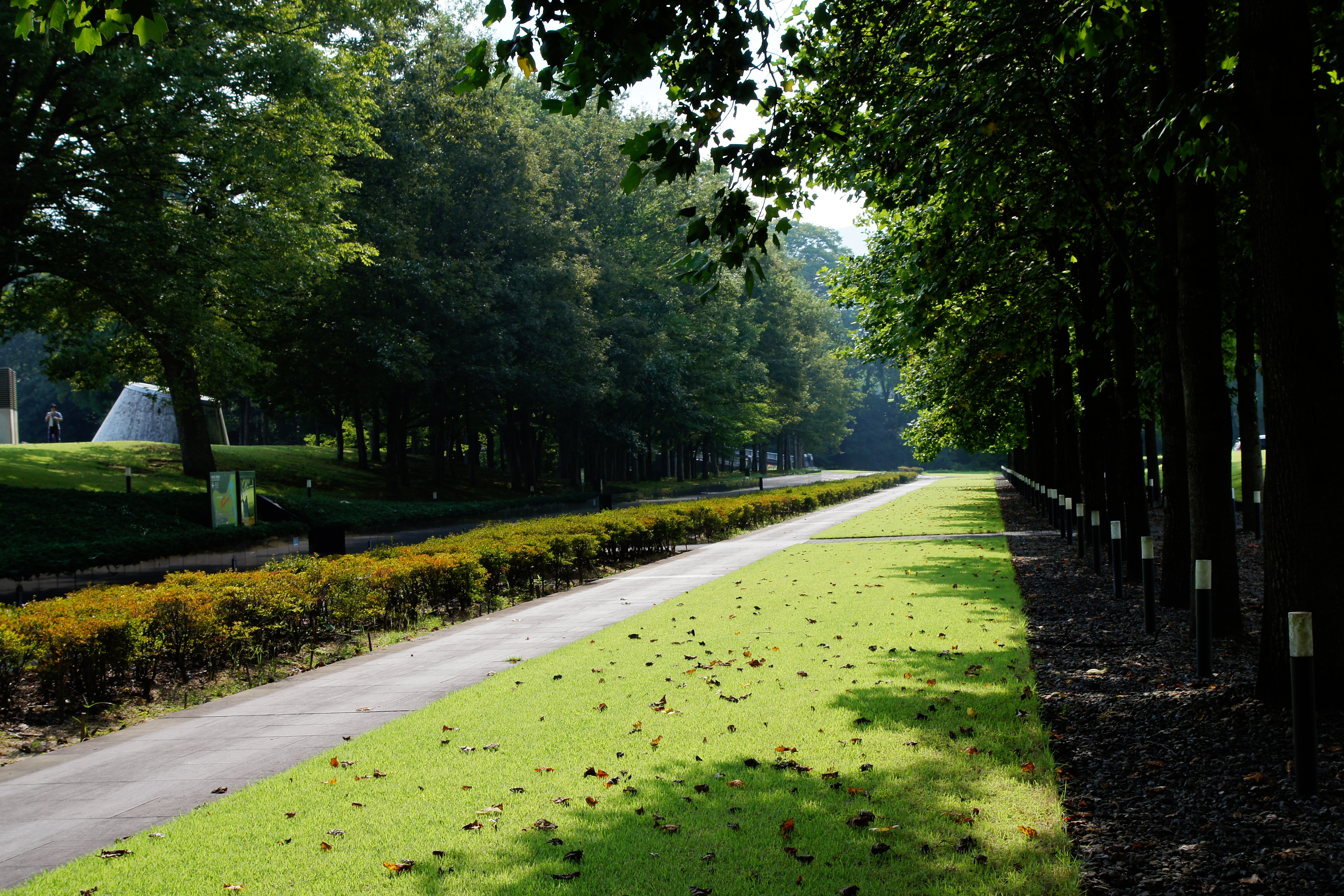 Uemura Naomi Memorial Museum in Kannabe highlands, Toyooka, Hyogo prefecture, Japan.